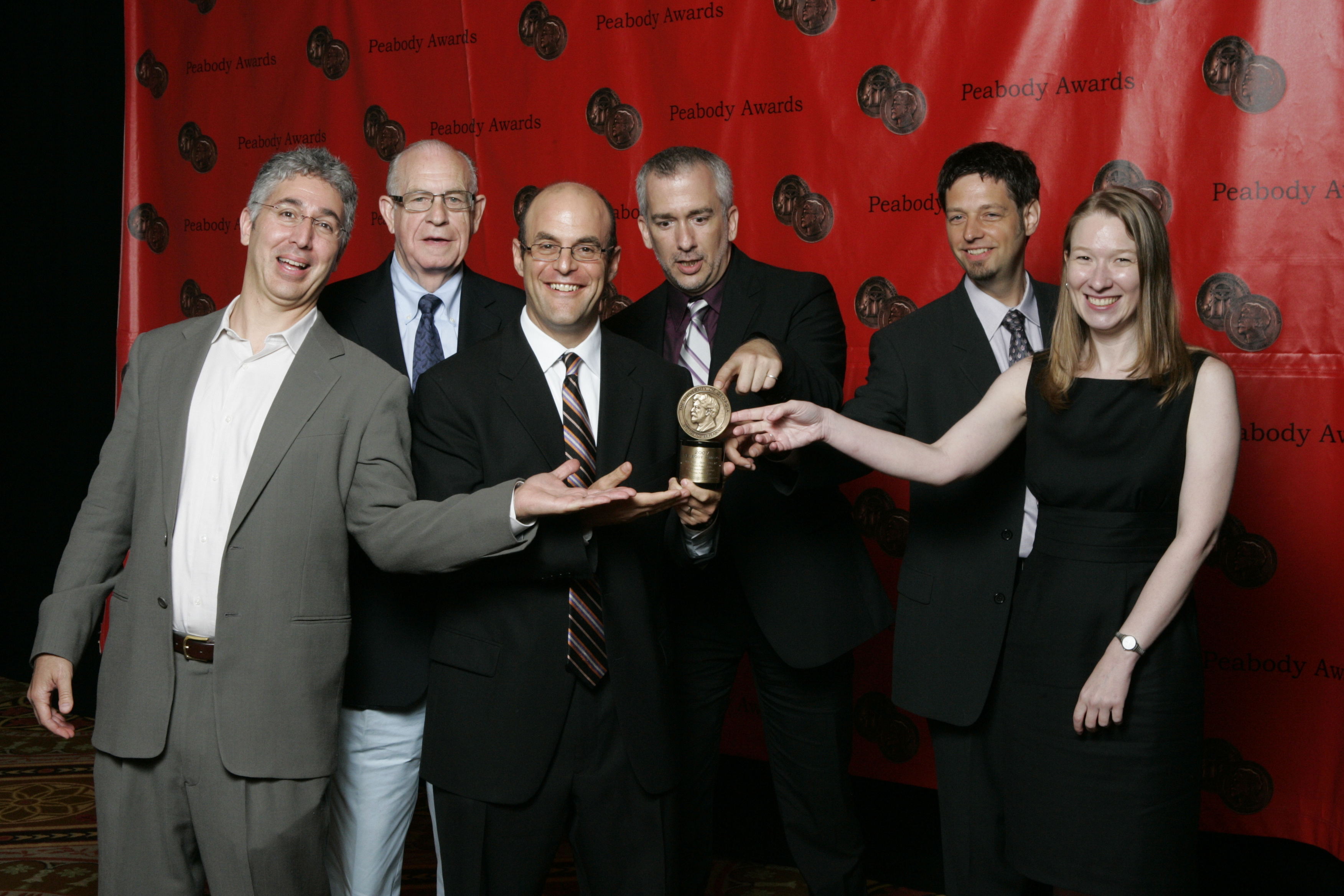 Doug Berman, Carl Kasell, Peter Sagal, Rod Abid, Phillip Goedicke, and Emily Ecton, 67th Annual Peabody Awards Luncheon Waldorf=Astoria Hotel New York, NY USA June 16, 2008